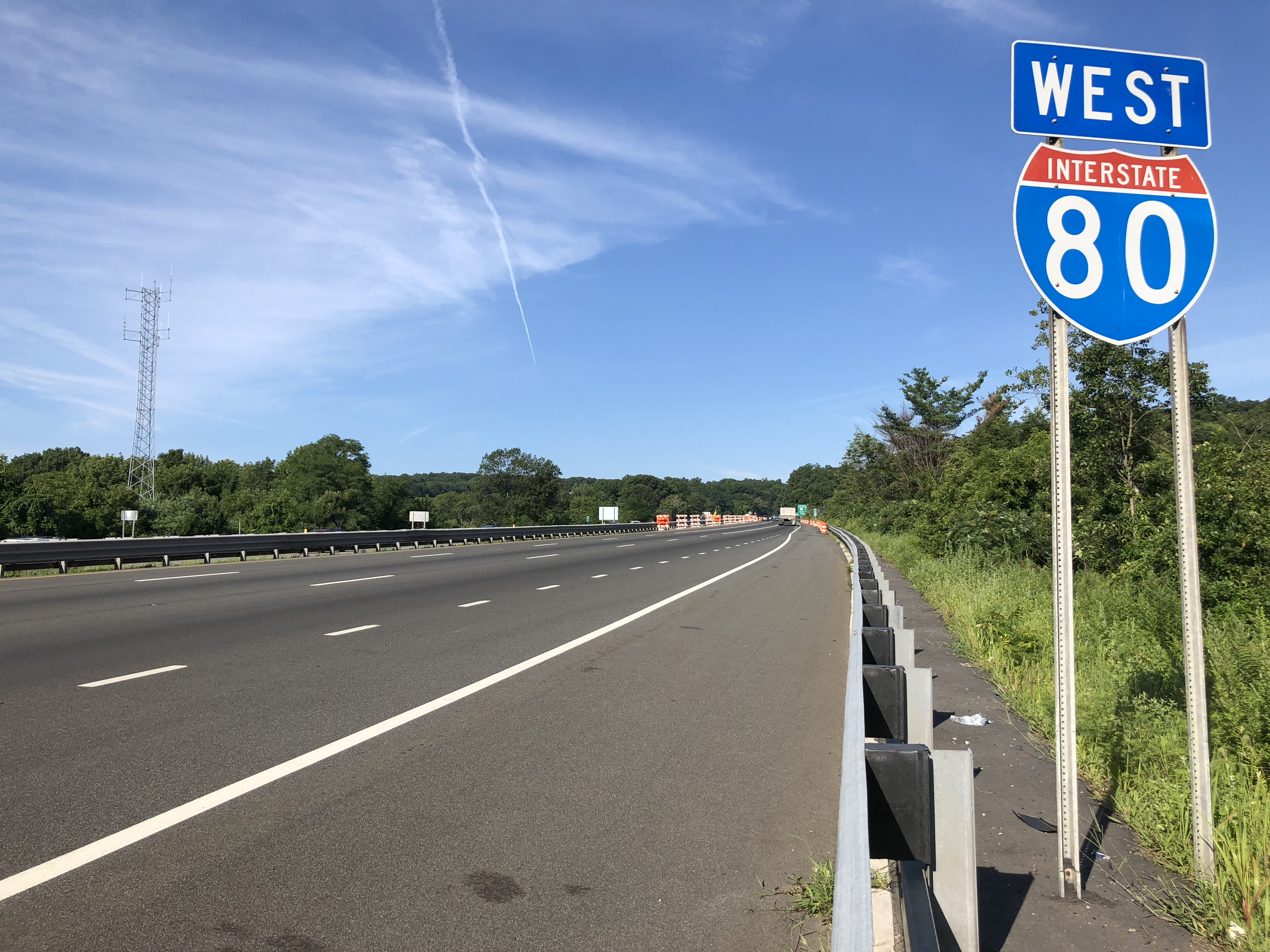 View west along Interstate 80 just west of Exit 28 in Roxbury Township, Morris County, New Jersey